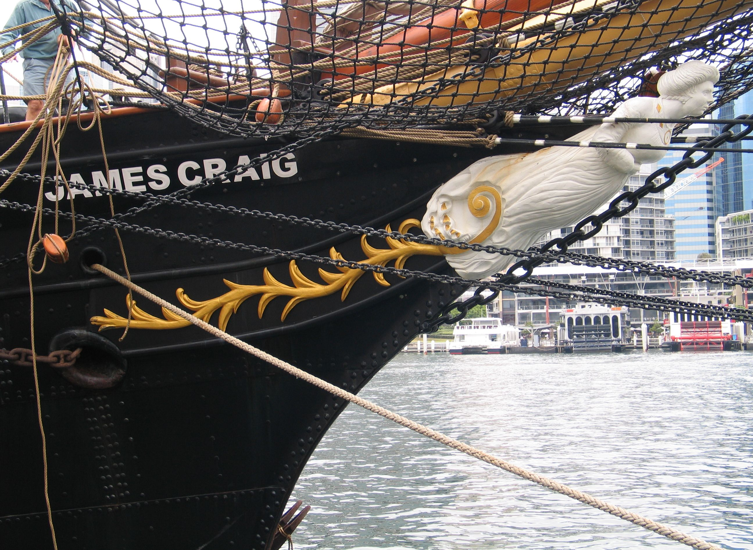 James Craig barque at the Australian National Mairitme Museum, Sydney, NSW, Australia.